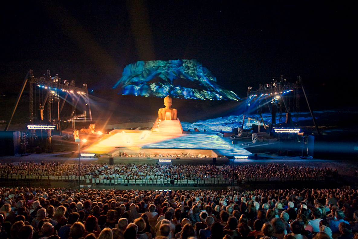 Aida at Masada אאידה במצדה 2011 The Israel Opera at Masada Conductor Daniel Oren Director Charles Roubaud Set Designer Emmanuelle Favre Costume Designer Denise (Katia) Duflot Sound Designer Bryan Grant Lighting Designer Avi